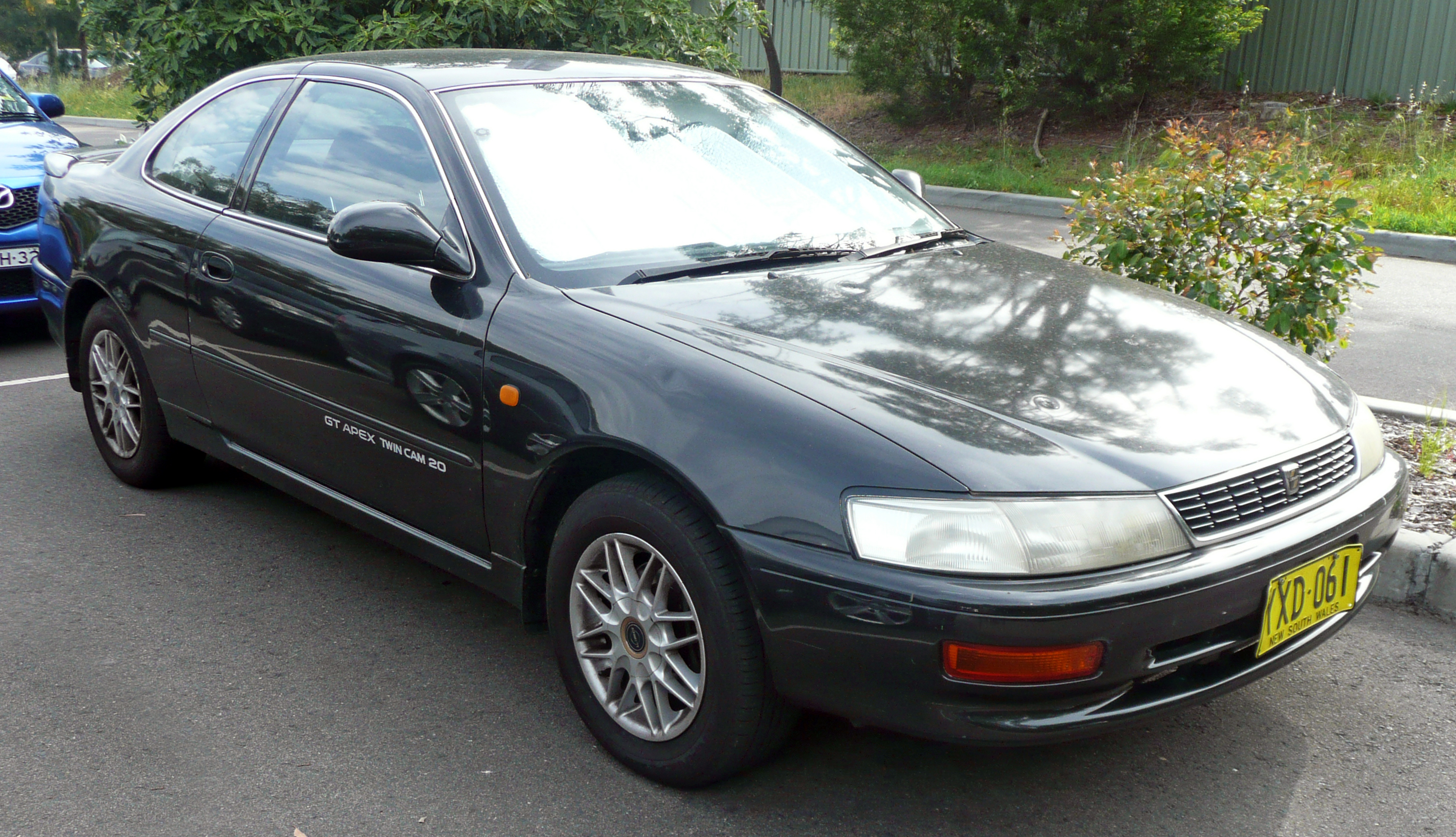 1993 Toyota Corolla Levin (AE101) GT Apex coupe (Japanese grey import). Photographed in Kirrawee, New South Wales, Australia.